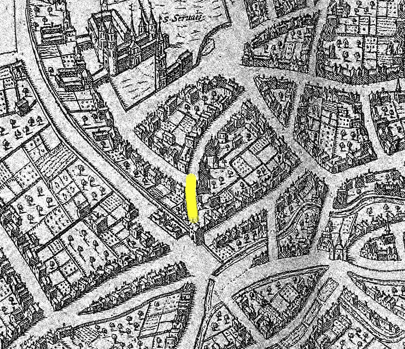 This is a detail of the city plan of Maastricht that was published in Cologne in 1572. The map was included in the town atlas Civitates orbis terrarum by Georg Braun (1541-1622) and Frans Hogenberg (1535-1590). The Civitates was one of the bestsellers of the last quarter of the 16th century. The Amsterdam publisher Jan Janssonius (1588-1664) bought the copper plates of the atlas in 1653. He used the plates for his own town atlas from 1657. After his death, the plates were sold several times until the end of the 18th century.